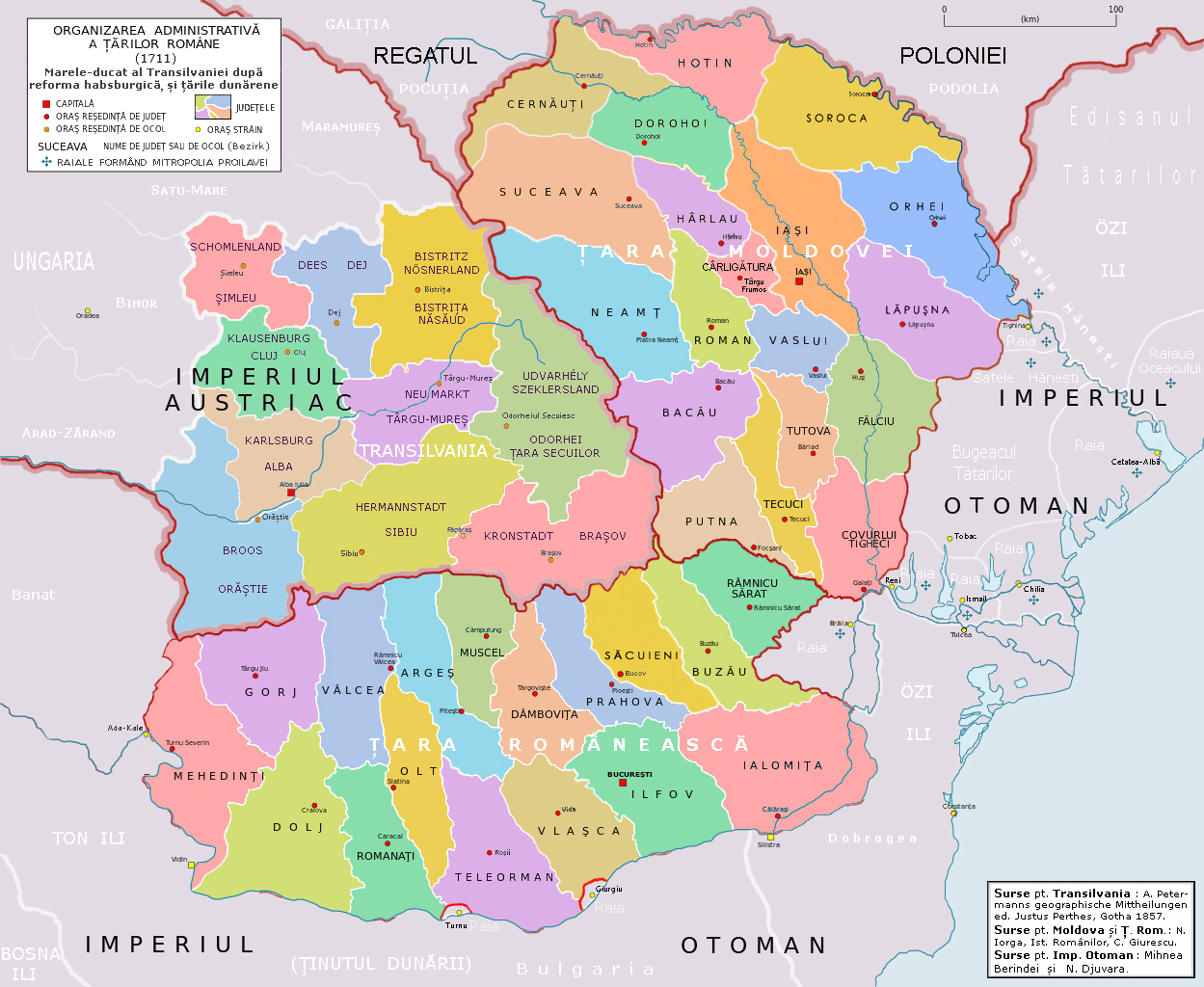 Bezirke & Judetse 1711, according with the sources mentionned, derivative graphic line since Arnold Platon